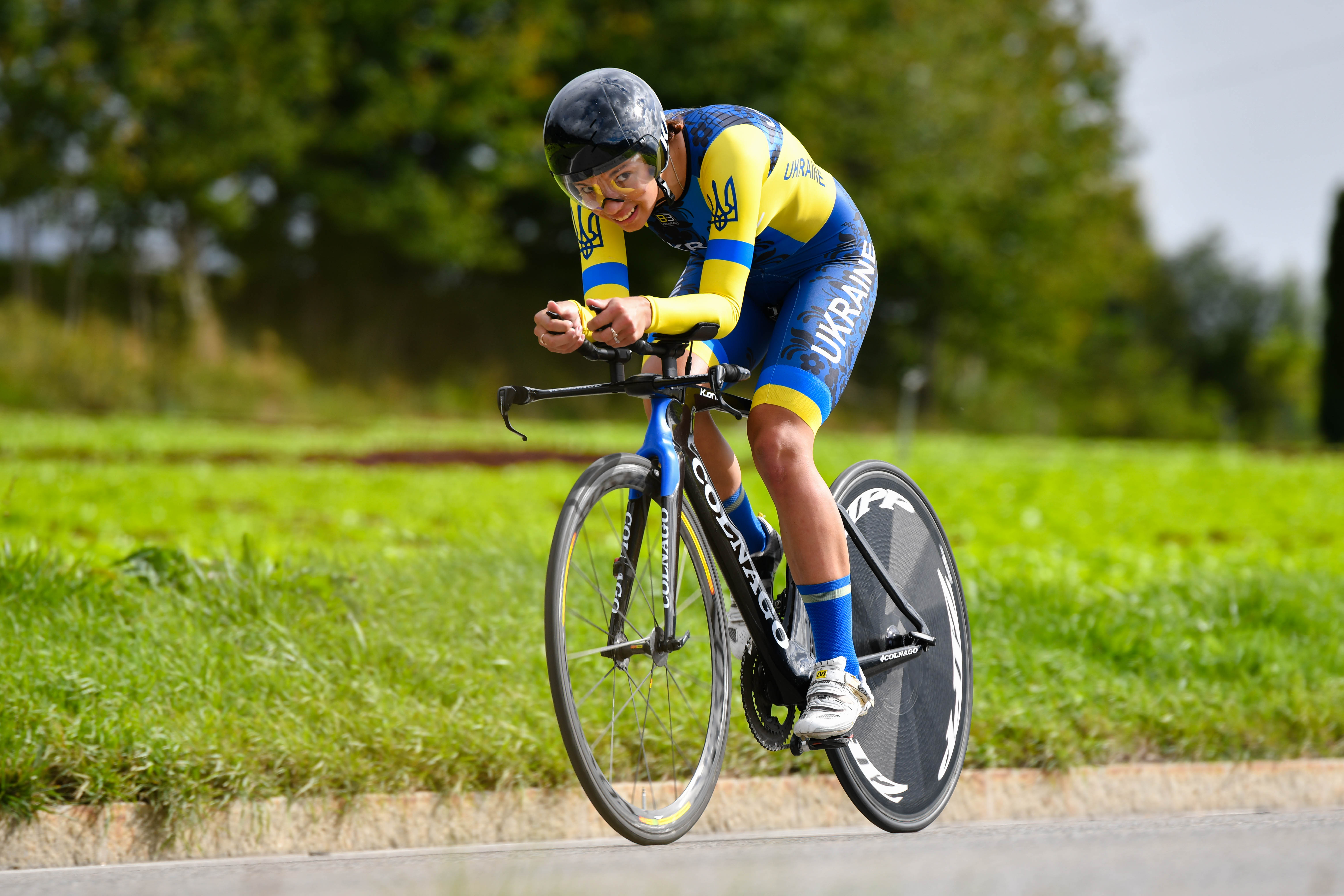 2018 UCI Road World Championships Innsbruck/Tirol Women Juniors Individual Time Trial. Picture shows: Tetyana Yaschenko (UKR)